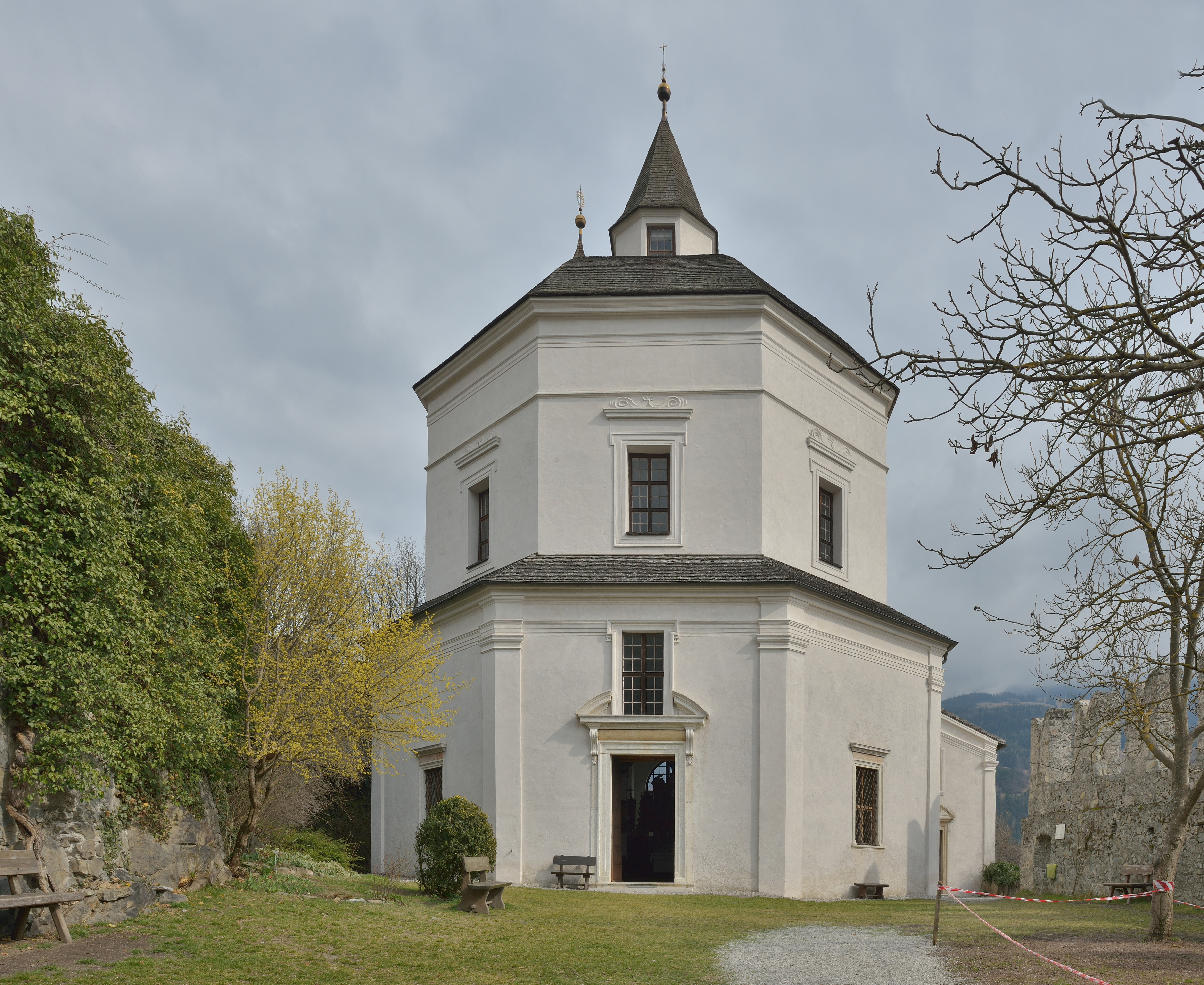 Our Lady church in the Säben Abbey in South Tyrol